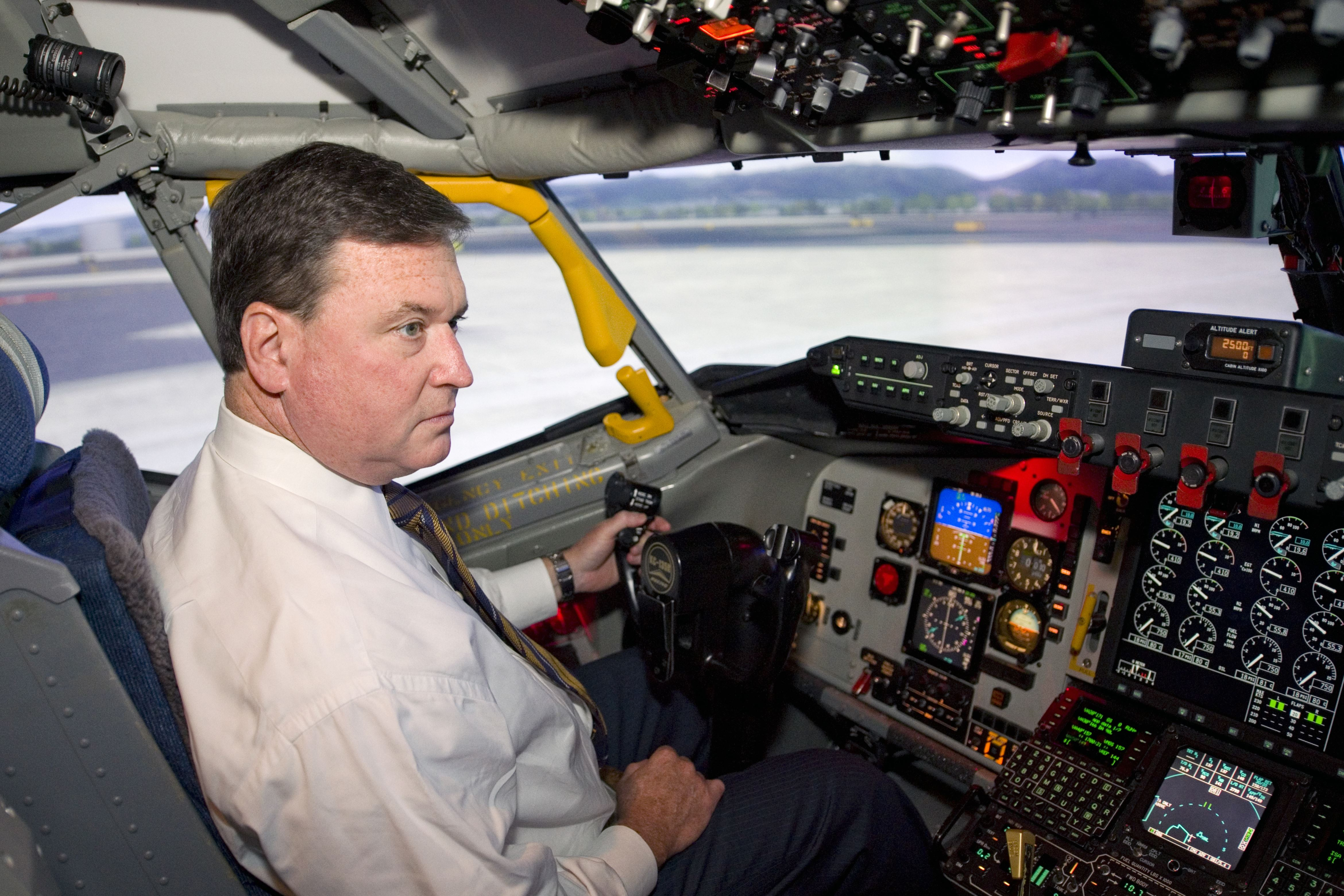 U.S. Rep. Todd Rokita operates the controls of a KC-135R Stratotanker simulator during his visit to Grissom Air Reserve Base, Ind., Nov. 21, 2017. Rokita and his staff visited Grissom to learn more about the base and its role in both national defense and the Indiana economy. (U.S. Air Force graphic/Tech. Sgt. Benjamin Mota)